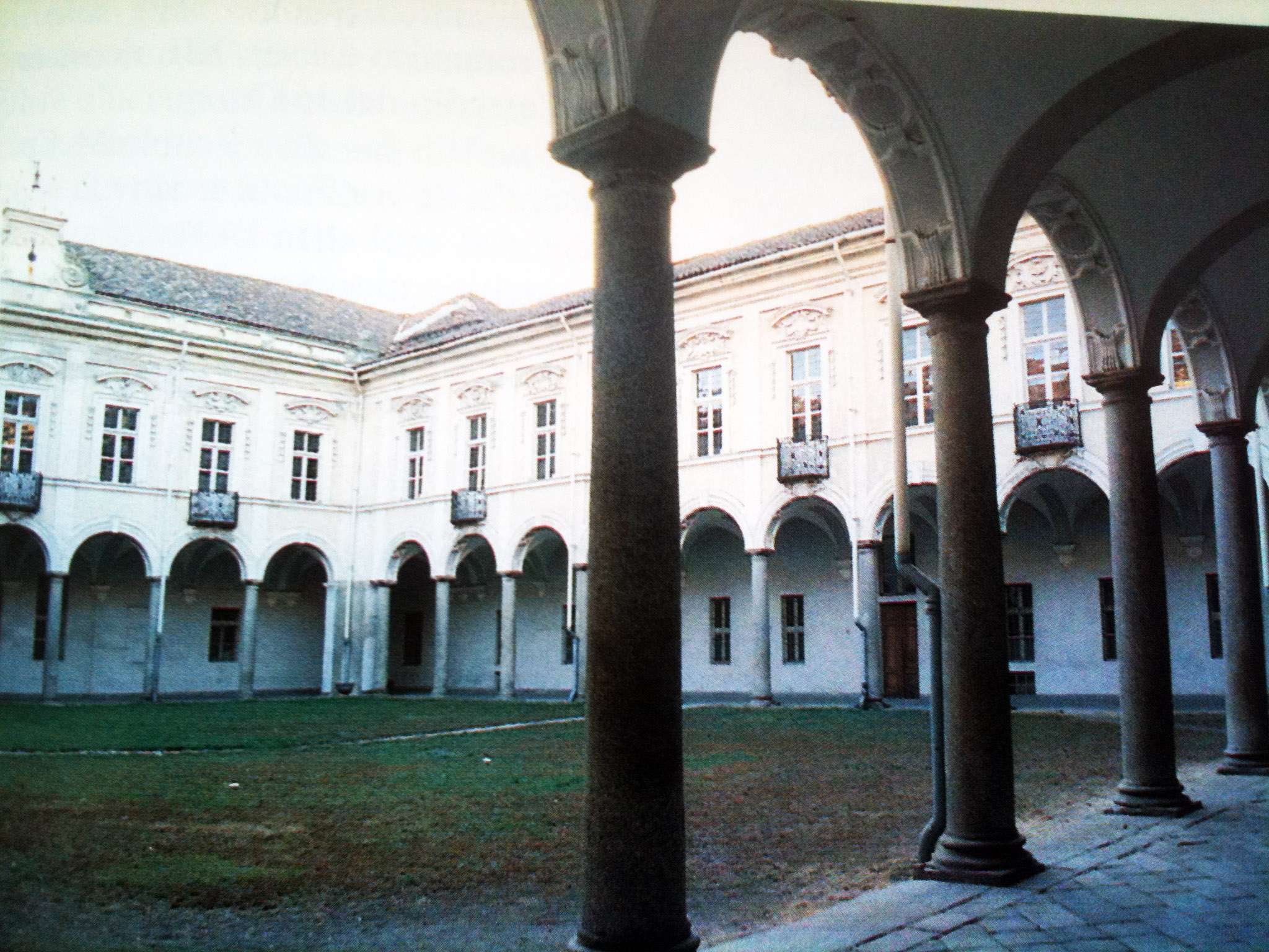 Seminario di Vercelli